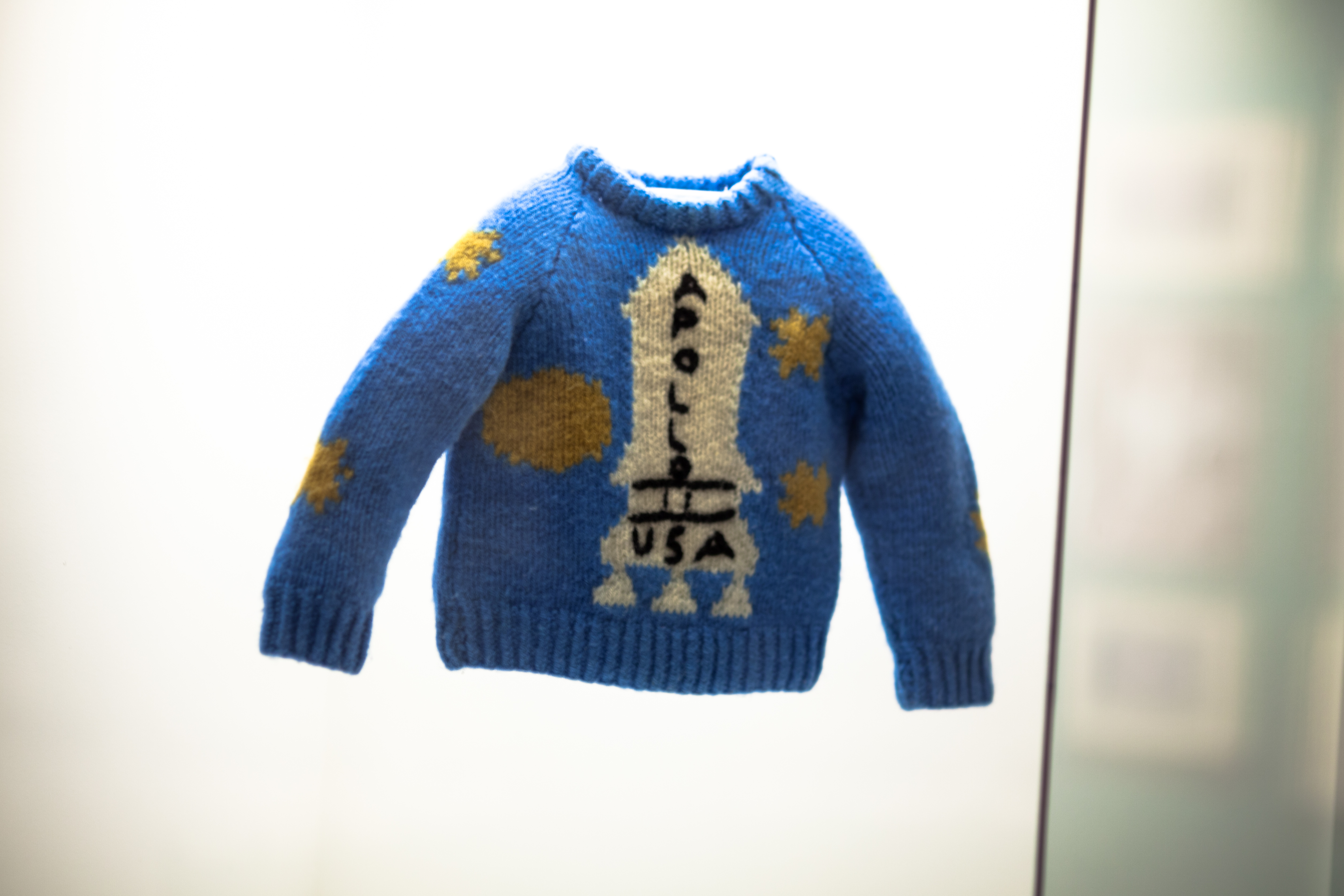 Sweater worn by Danny Lloyd in the 1980 movie The Shining, displayed at Stanley Kubrick: The Exhibit, TIFF, Canada.